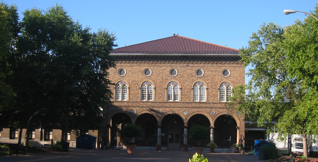 Soulard Market building